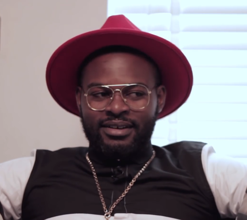 Falz's interview on NdaniTV's The Juice